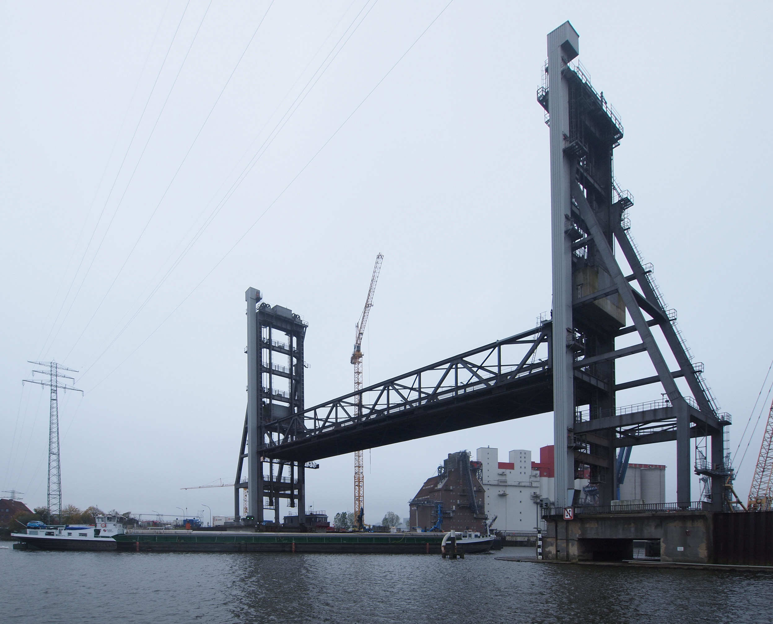 Rethe lift bridge in the harbour of Hamburg, Germany